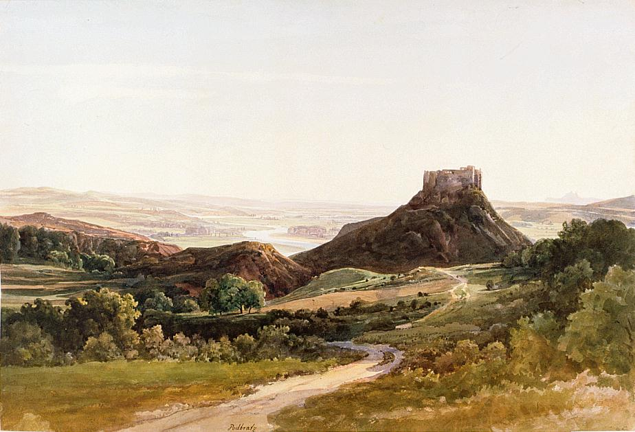 Painting Of Bystrizza Castle